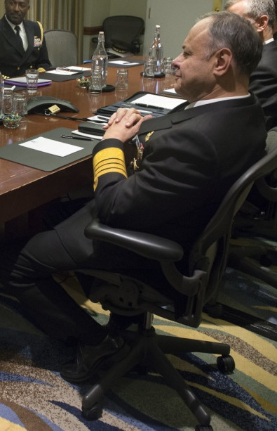 Recep Bülent Bostanoğlu (born 23 August 1953)